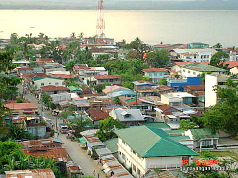 from guinayanganrepublic blog